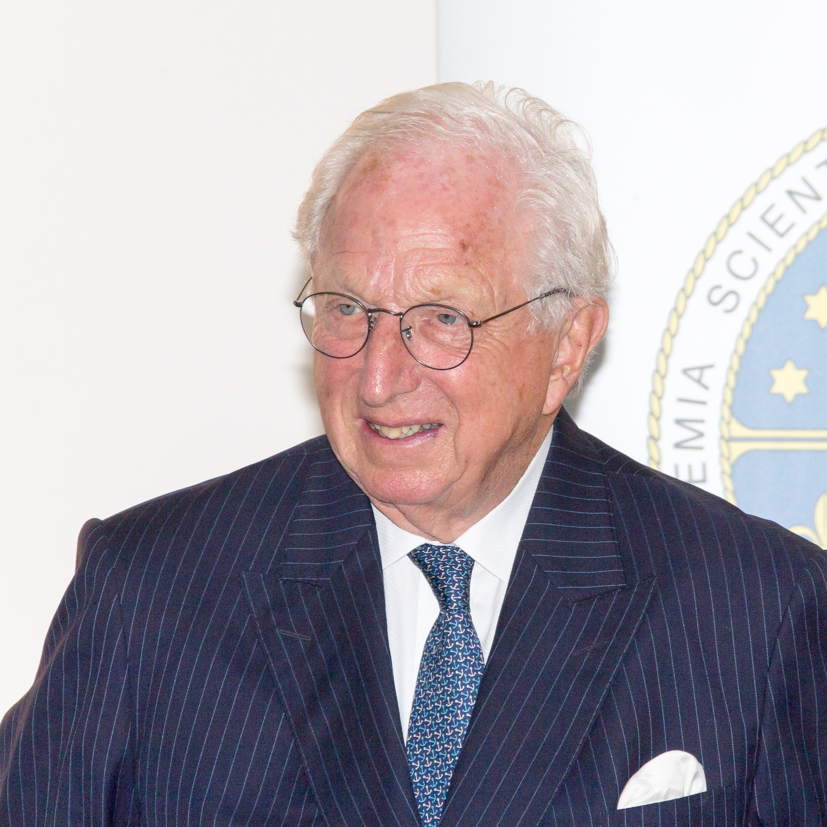 Award ceremony of the European Academy of Sciences and Arts in the city townhall of Cologne Photo: The Rt Hon Lord Harry Woolf